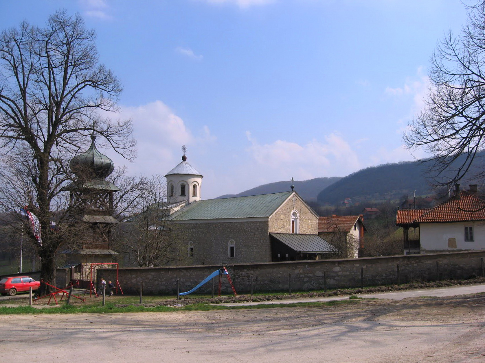 Monastery Papraca